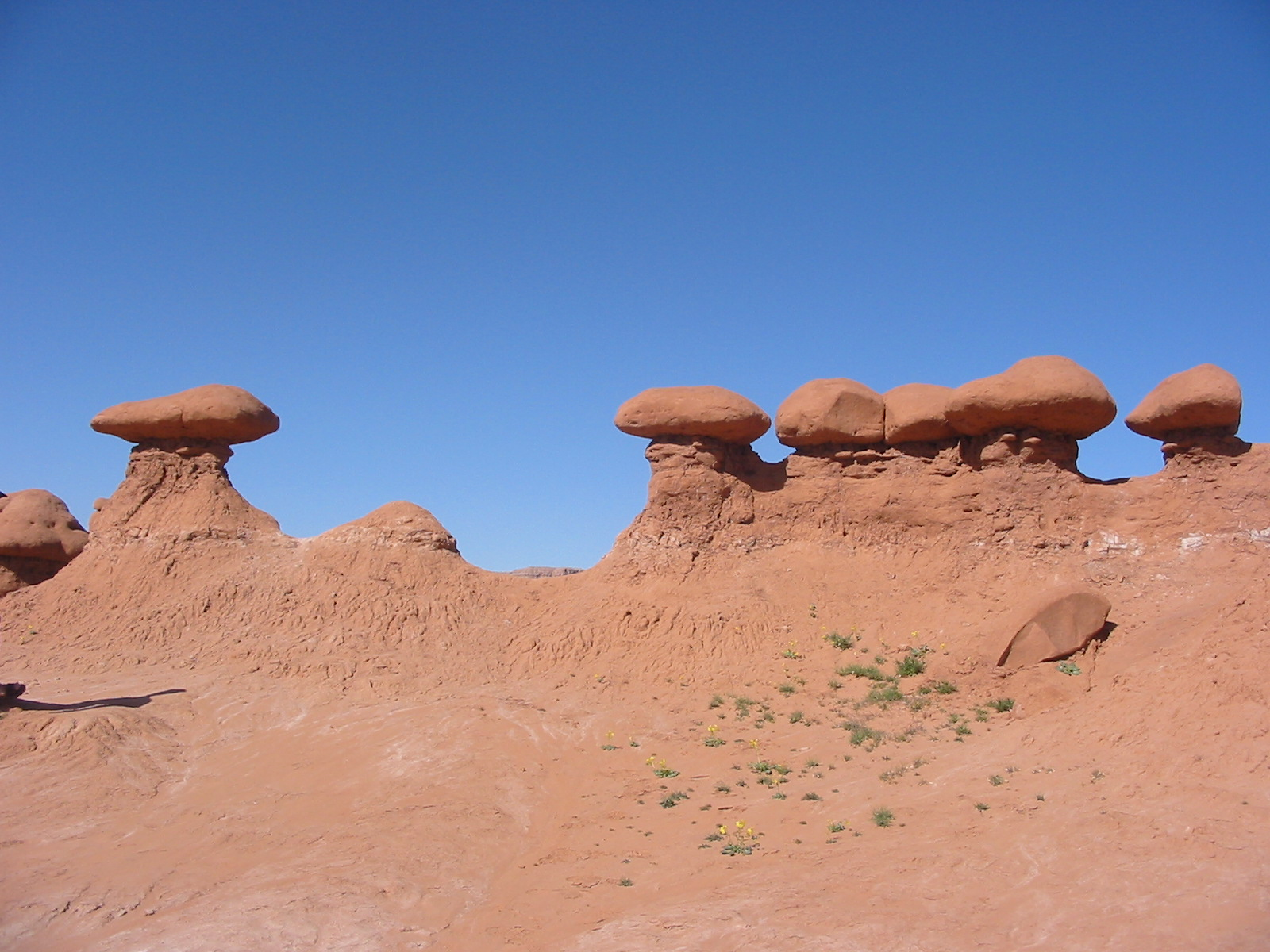 Goblin_Valley_State_Park